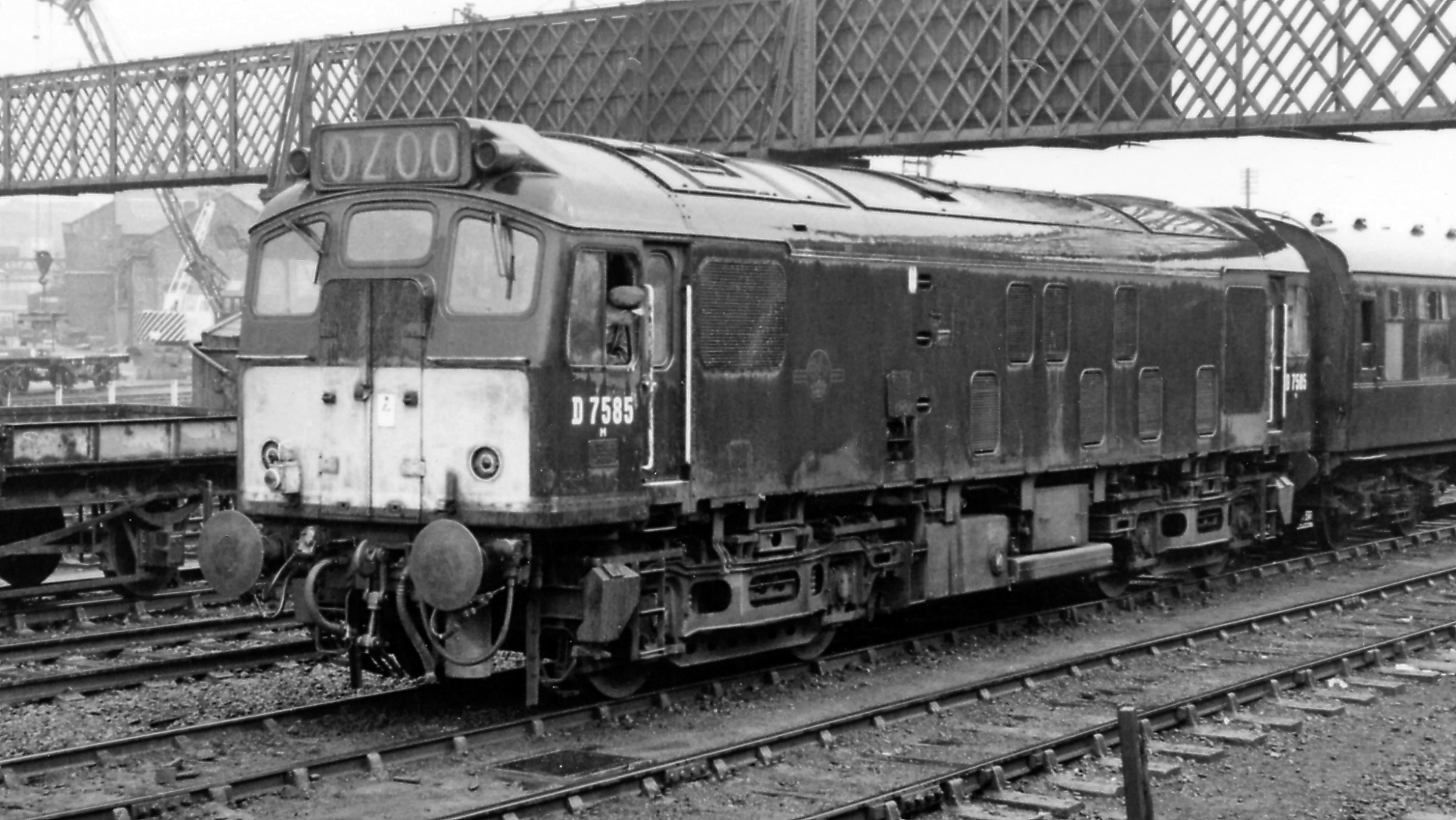 BR/Sulzer Type 2 Bo-Bo on Station Pilot at Derby. No. D7585 was one of the large series of Type 2 (later Class 25) 1,250hp Diesel-electric Bo-Bo's; 327 were built 1961-67 and they proved useful general purpose prime-movers over much of BR, lasting about 20 years. In 1965 they seemed very modern - and boring - at Derby, hitherto the fount of all Midland steam engines, which had puffed around there for generations but were extinguished in the next three years.